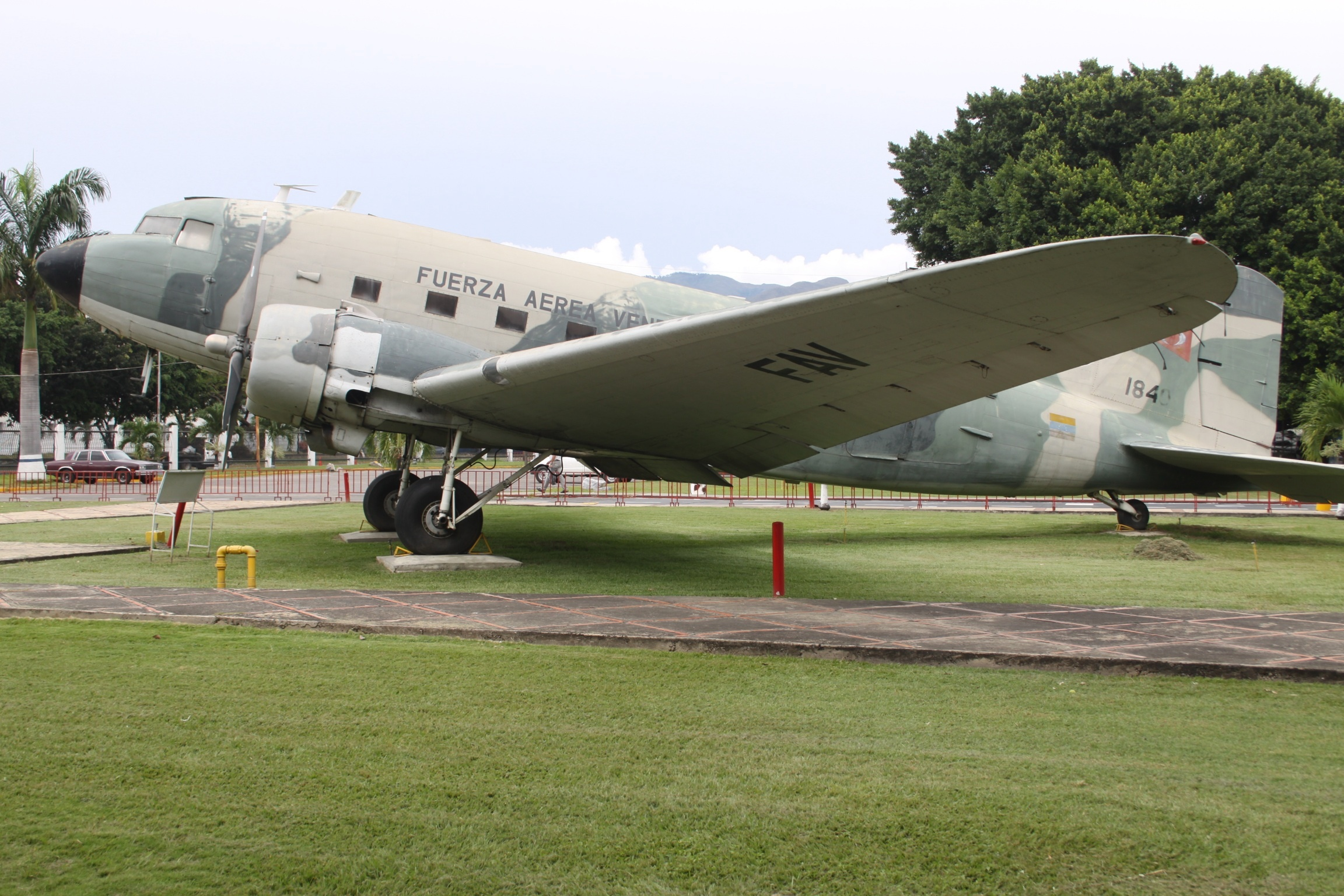 At Museo Aeronáutico de Maracay